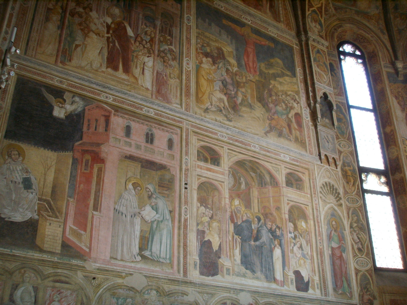 Choir Frescoes of the Hermit Church